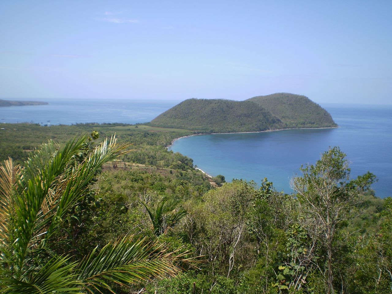 Douglas bay, Tanetane, Dominica. Photo taken from Manicou River Resort, Tanetane.